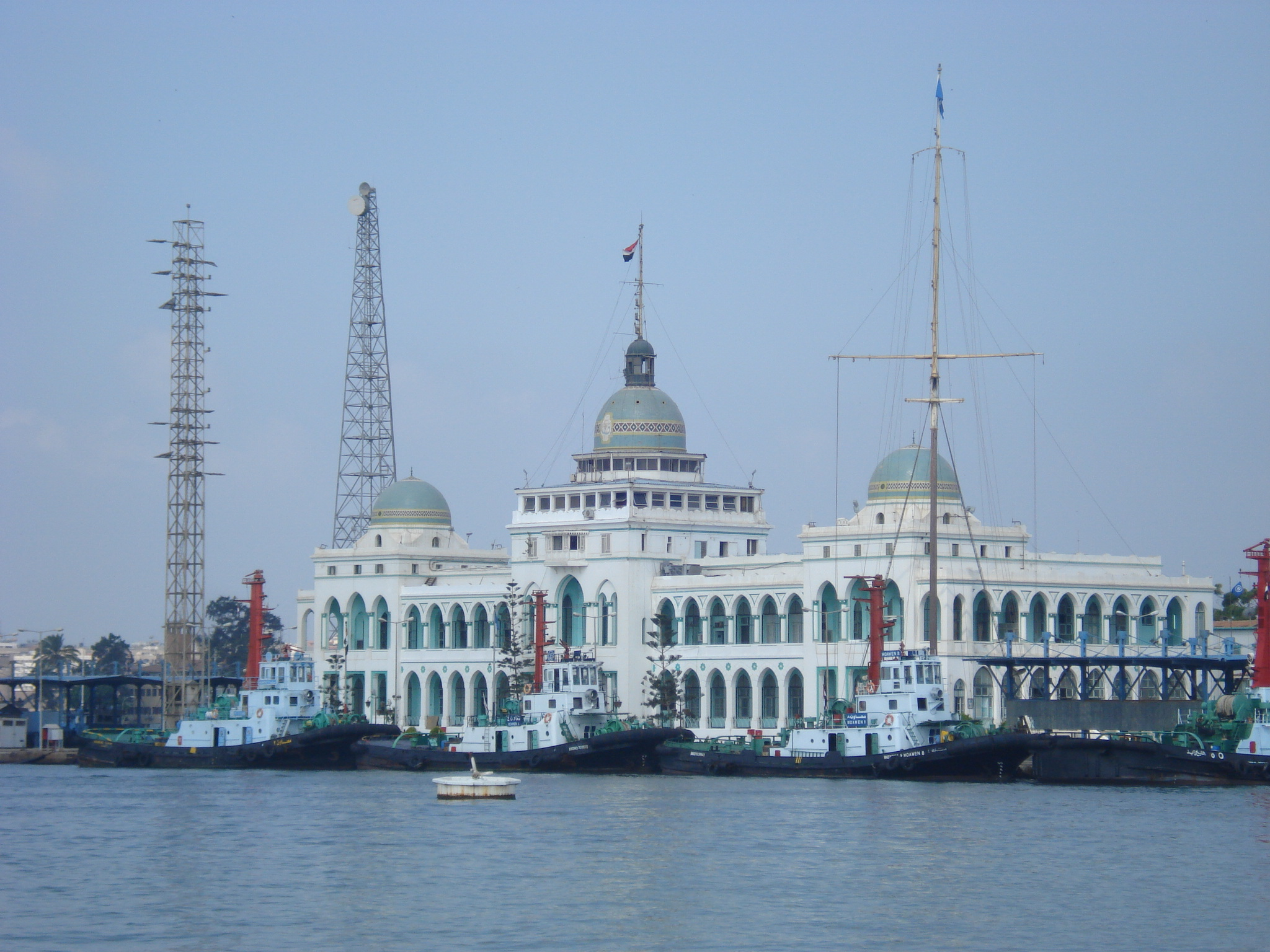 Building of Suez Canal Authority in port said, Egypt